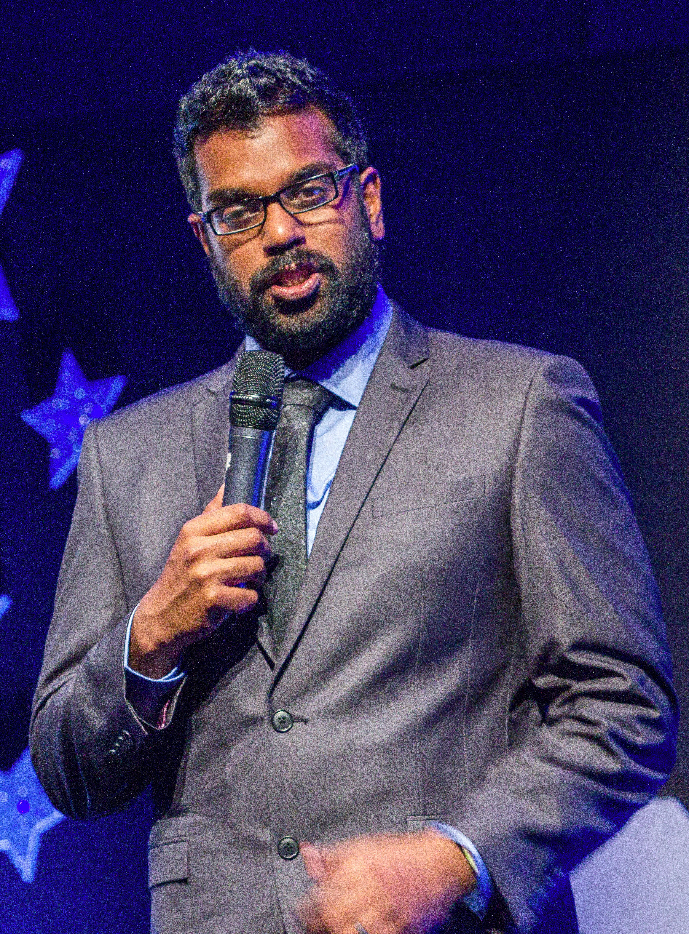 Romesh Ranganathan at the NFRN (National Federation of Retail Newsagents) Awards 2013